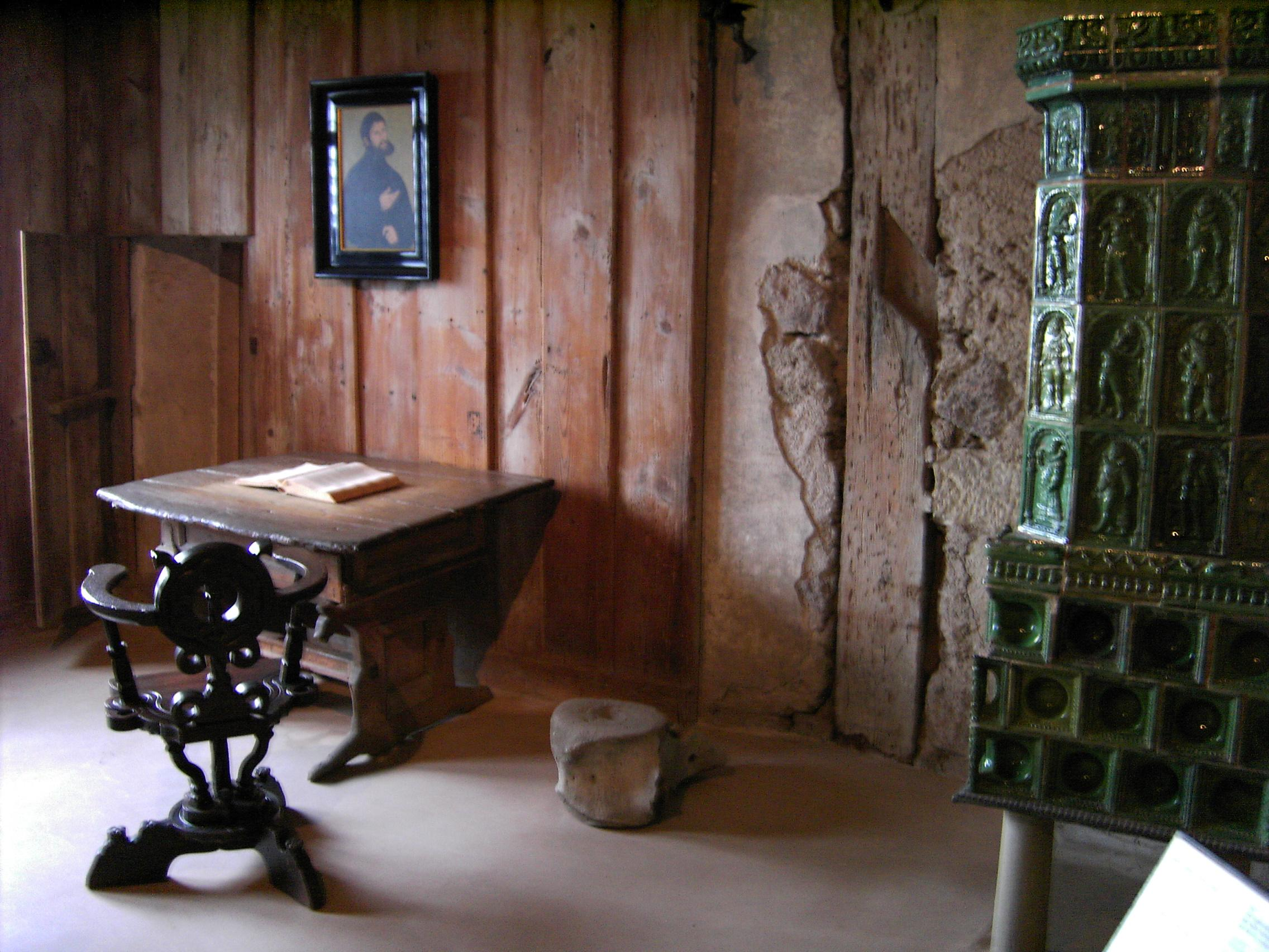 Wartburg, Luther's chamber.